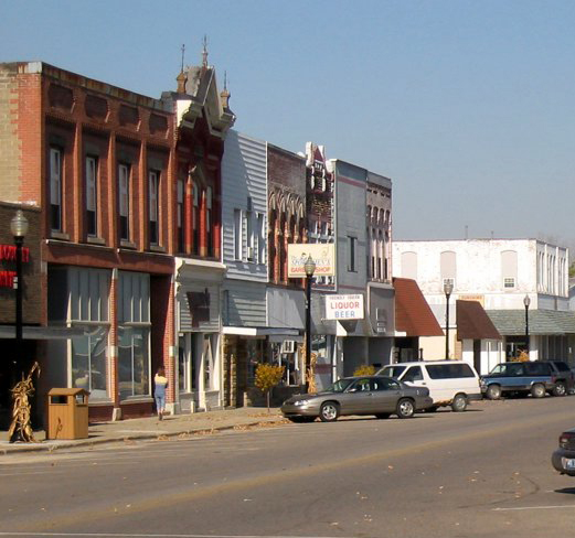 Downtown St. Louis, Michigan. November 2005. Photo by Stephen Gross.